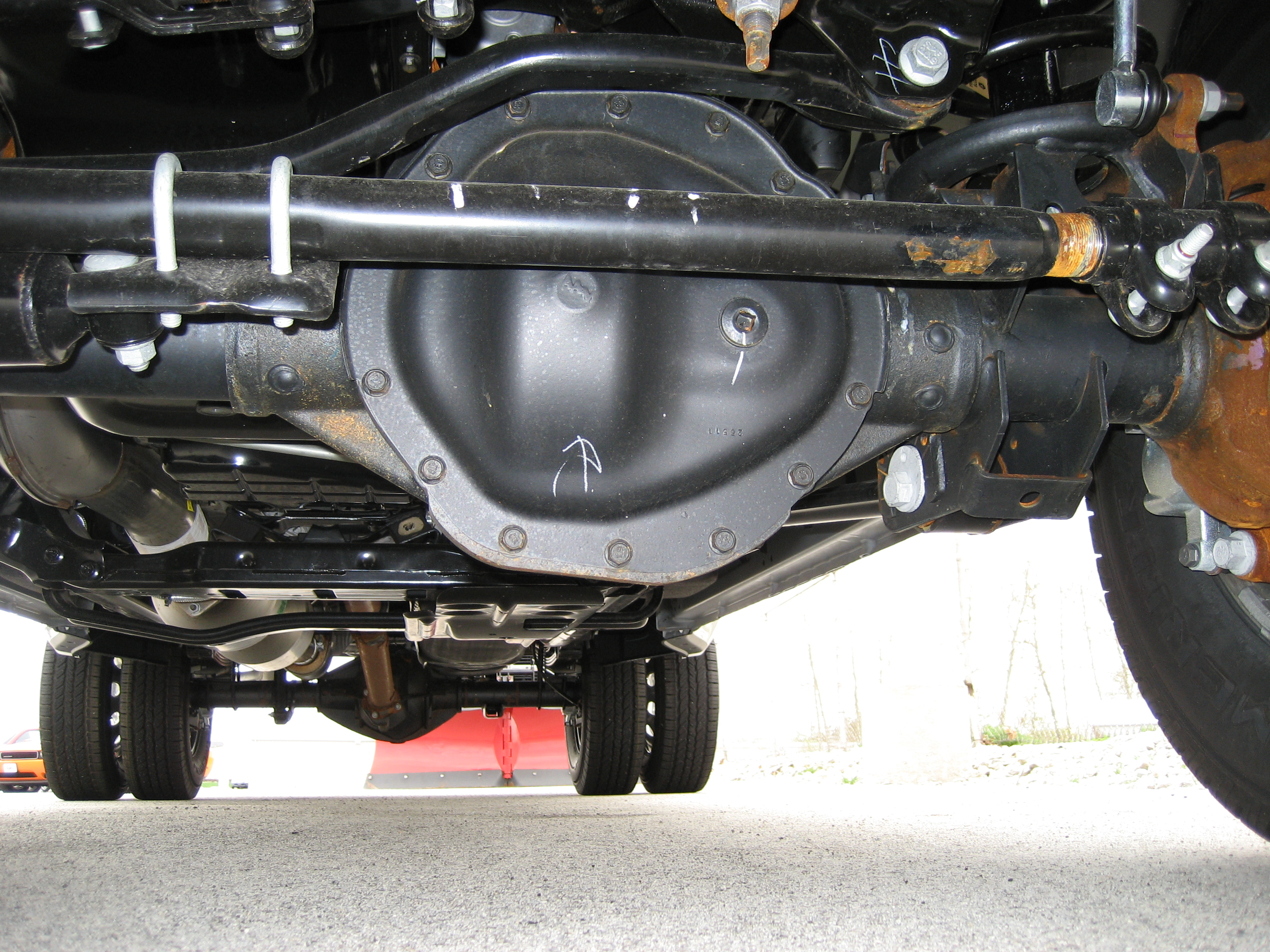 2012 Saginaw 9.5-inch axle, AAM 9.25 version in Ram 3500